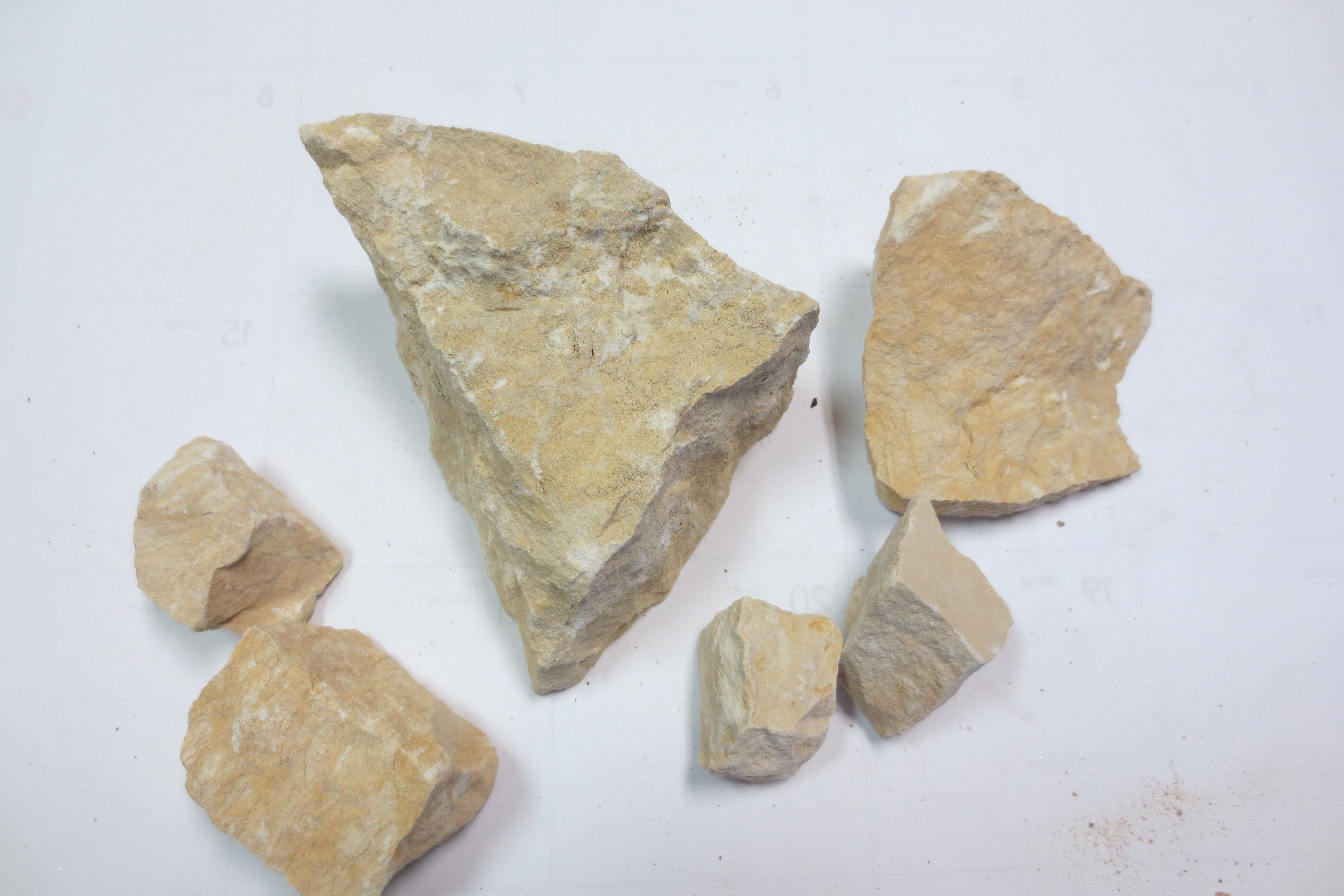 Dolomitic limestone